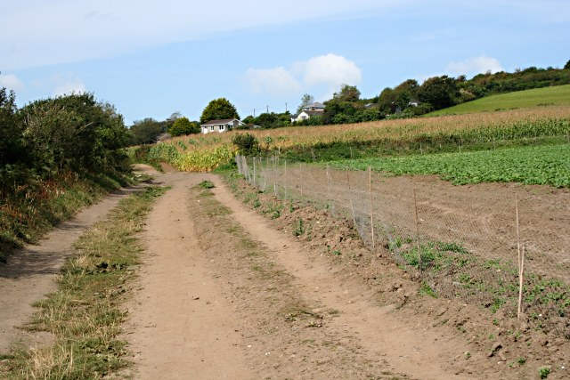 Brassicas and Maize On the lower slopes east of Penzance is some fairly good agricultural land. The near field of winter greens is surrounded by a low rabbit fence. Beyond that is a field of maize, usually grown as a silage crop for fodder.